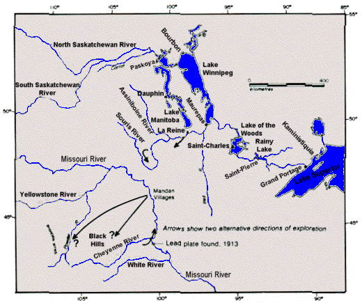 A map showing the area of operations of the La Verendrye family in the 1730s and 1740s